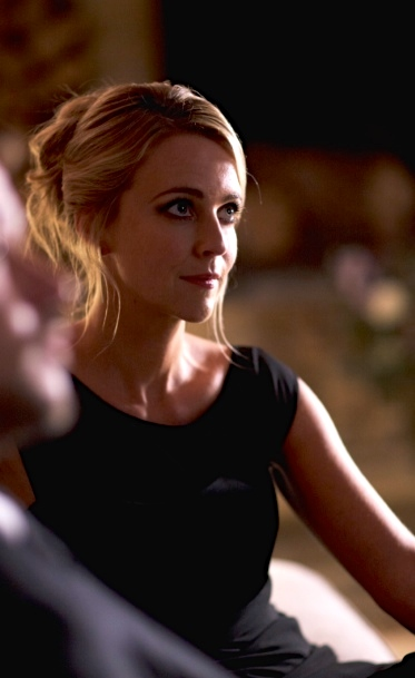 Miranda Raison, November 2014